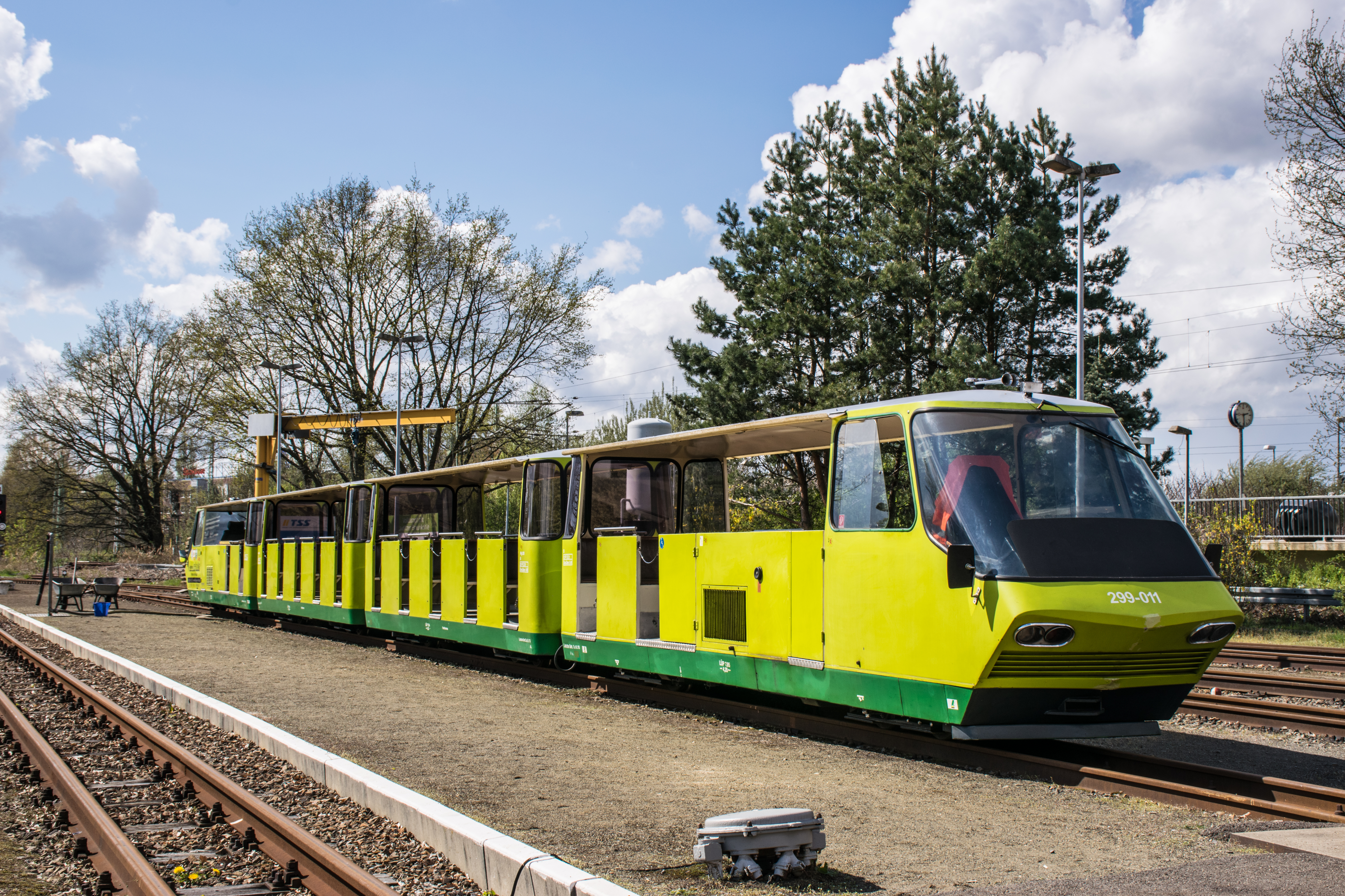 Dieseltriebzug ICE - 299-010 / 299-011. Was in service but failed outside the stadium being unable to engage forward gear. Built for the 1995 Bundesgartenschau. 2 powered and 3 trailer cars with VW power.